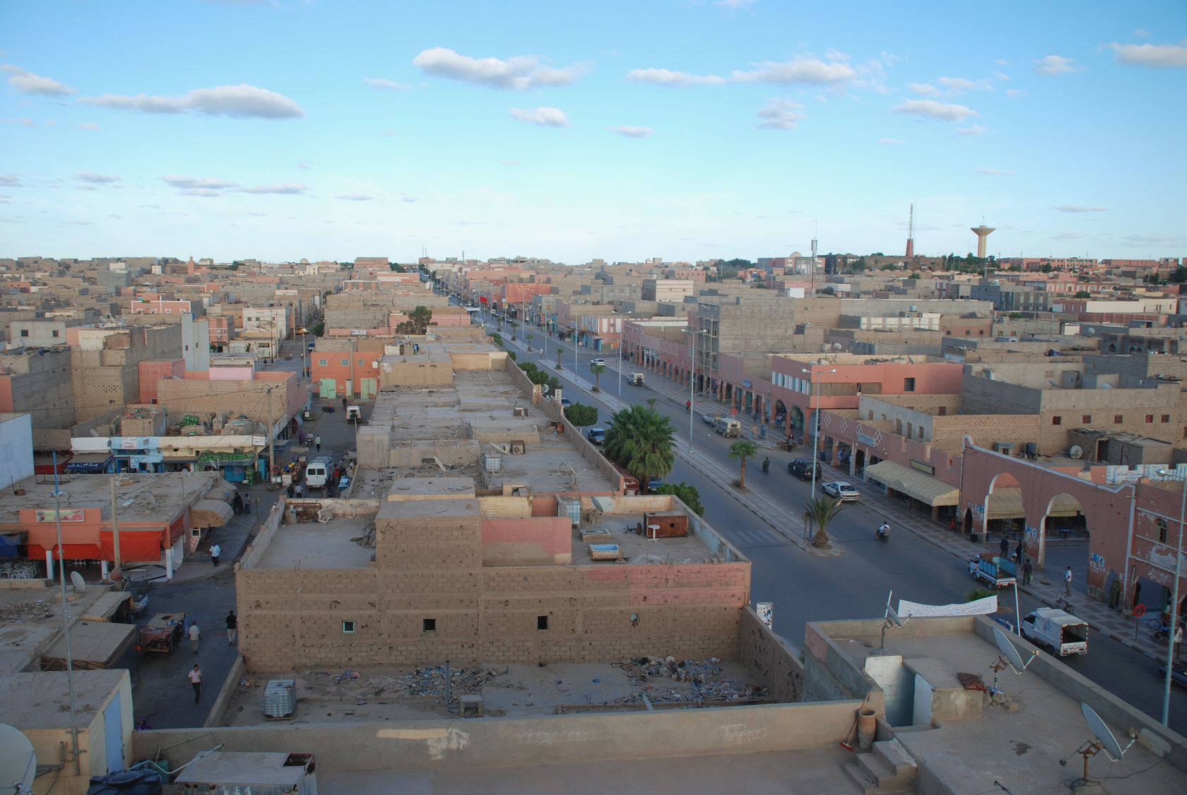 Smara, Western Sahara, main road towards east